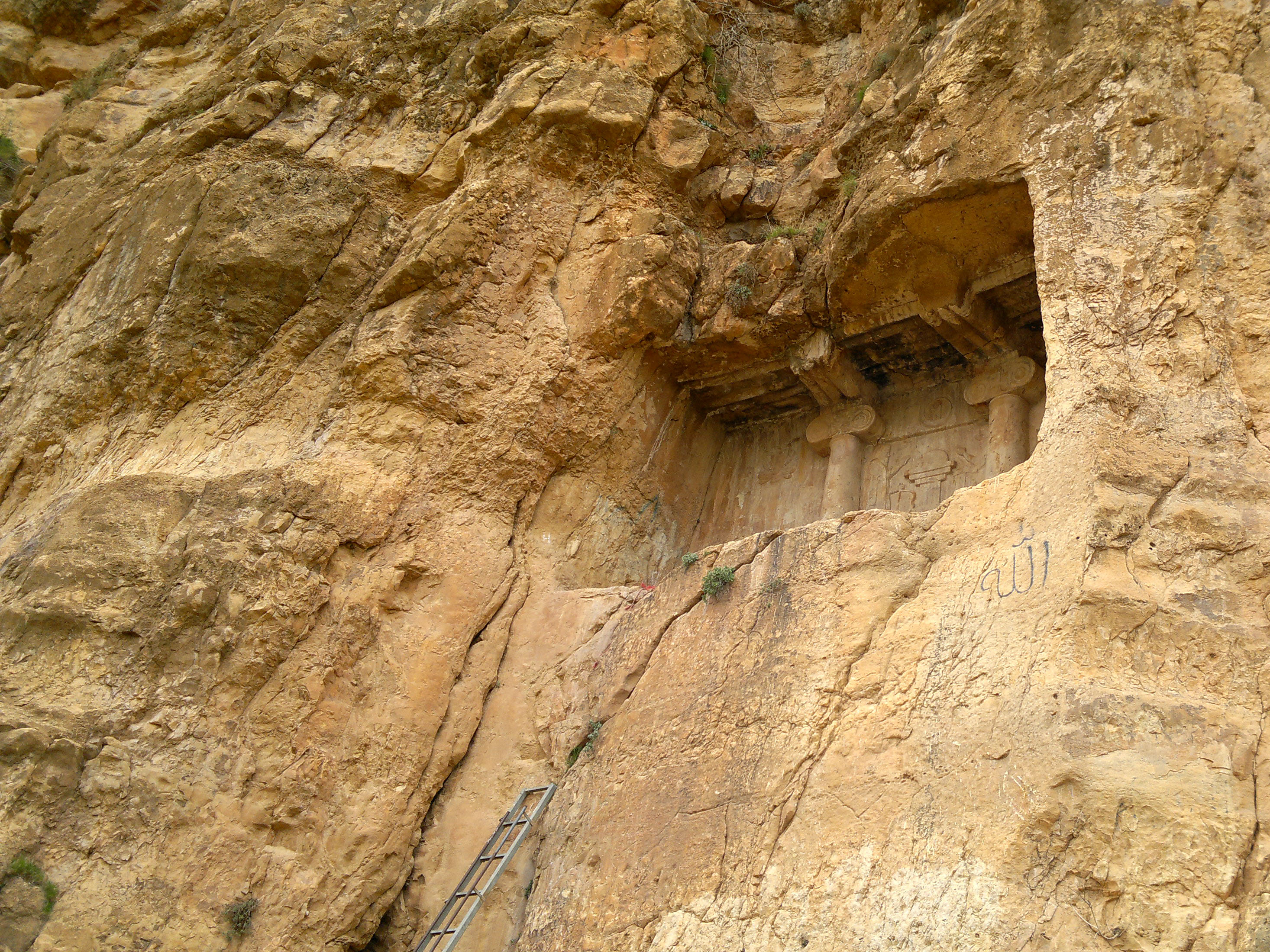 Qizqapan Cave located in Sulaymaniyah Cave